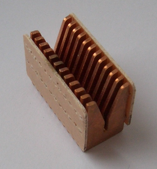 Deionization module from a circuit breaker to discharge electric arc